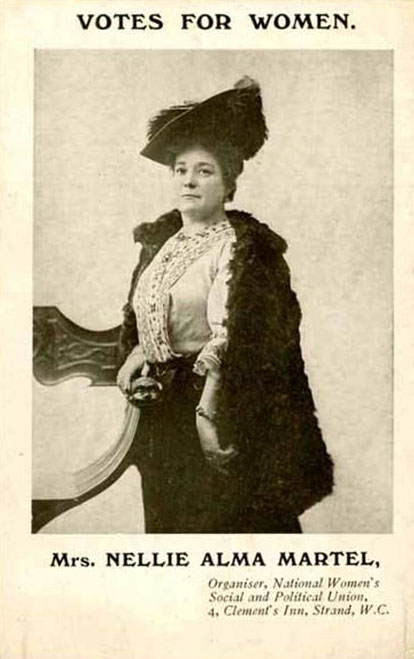 Postcard of Mrs. Nellie Alma Martel, Women's Social and Political Union Photochrom Co. Ltd. circa 1906. Contains Parliamentary information licensed under the Open Parliament Licence v3.0.